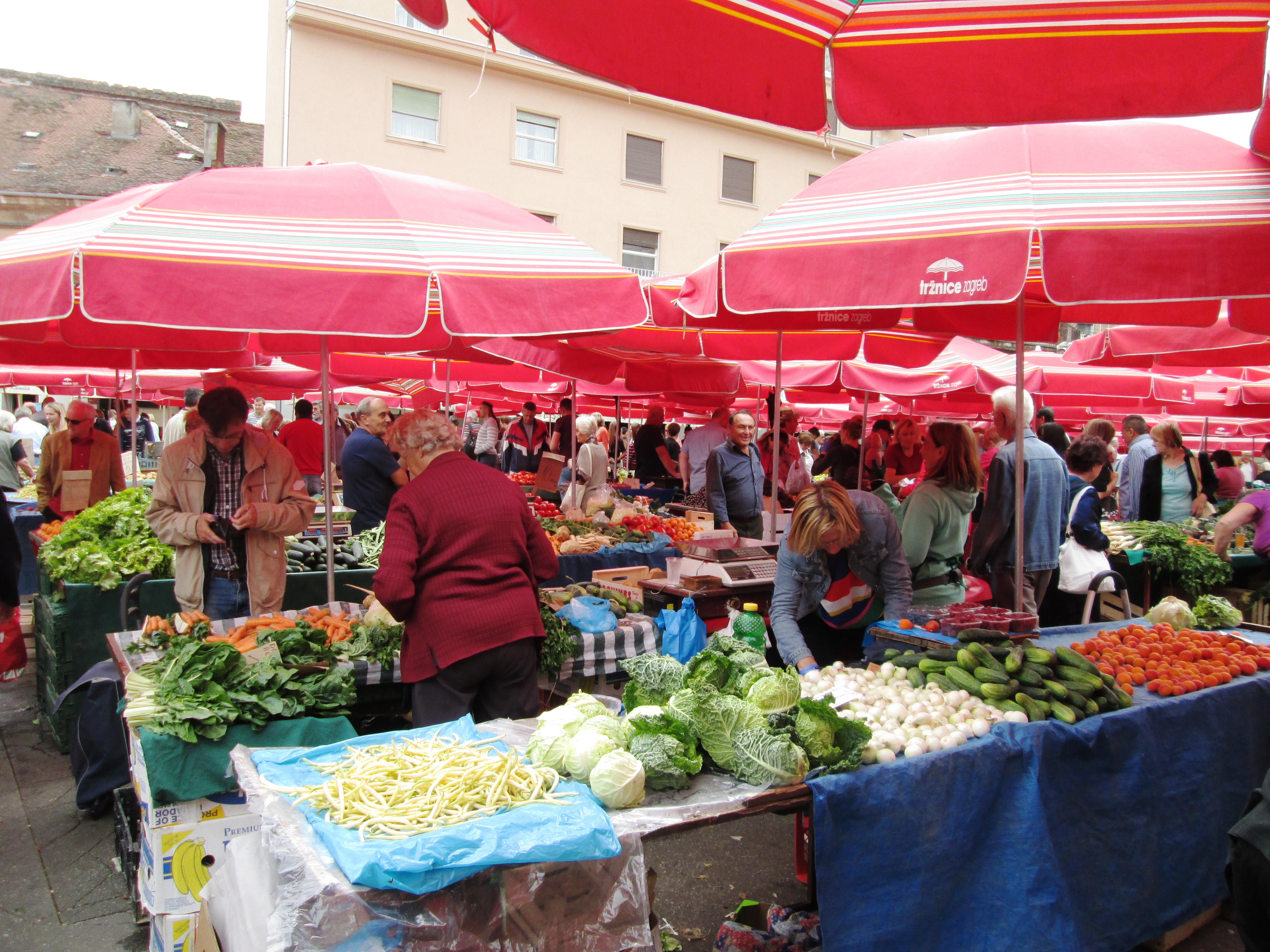 Dolac Market, Zagreb, Croatia